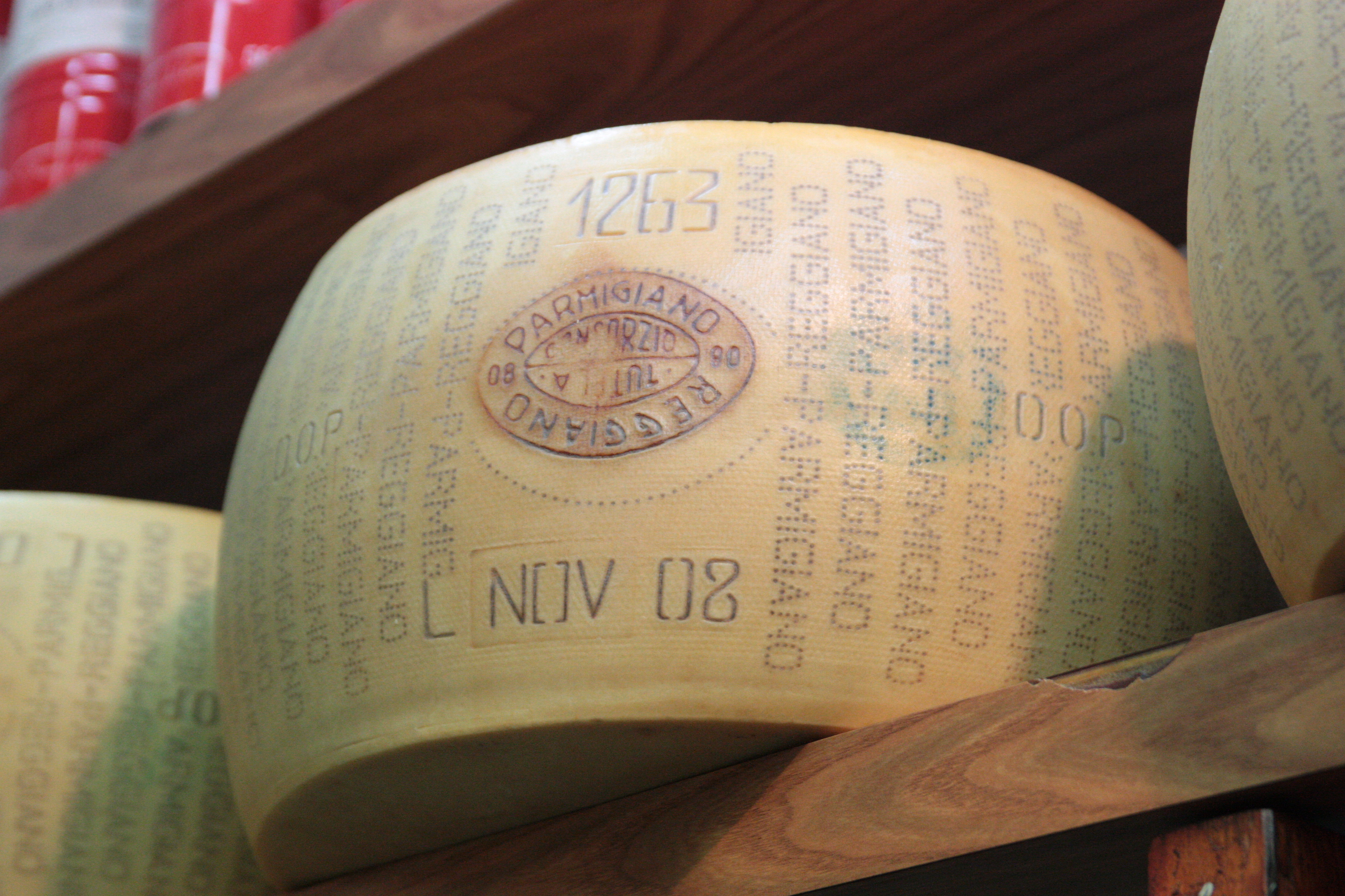 Parmigiano-Reggiano, also known as Parmesan cheese.